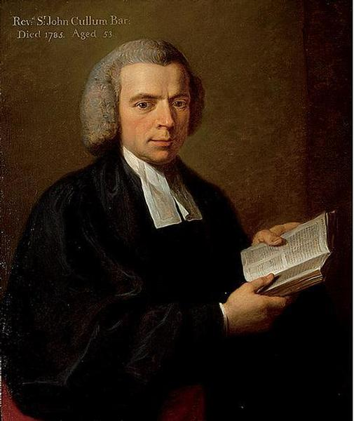 Portrait of Sir John Cullum, 6th Baronet, English clergyman and antiquarian.